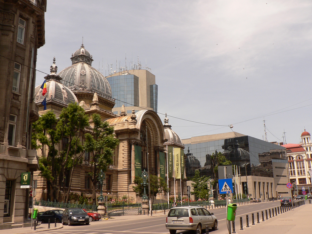 A view of Calea Victoriei Street with The CEC Bank Headquarters on the left side and the Bucharest Financial Plaza Tower right next in the right.